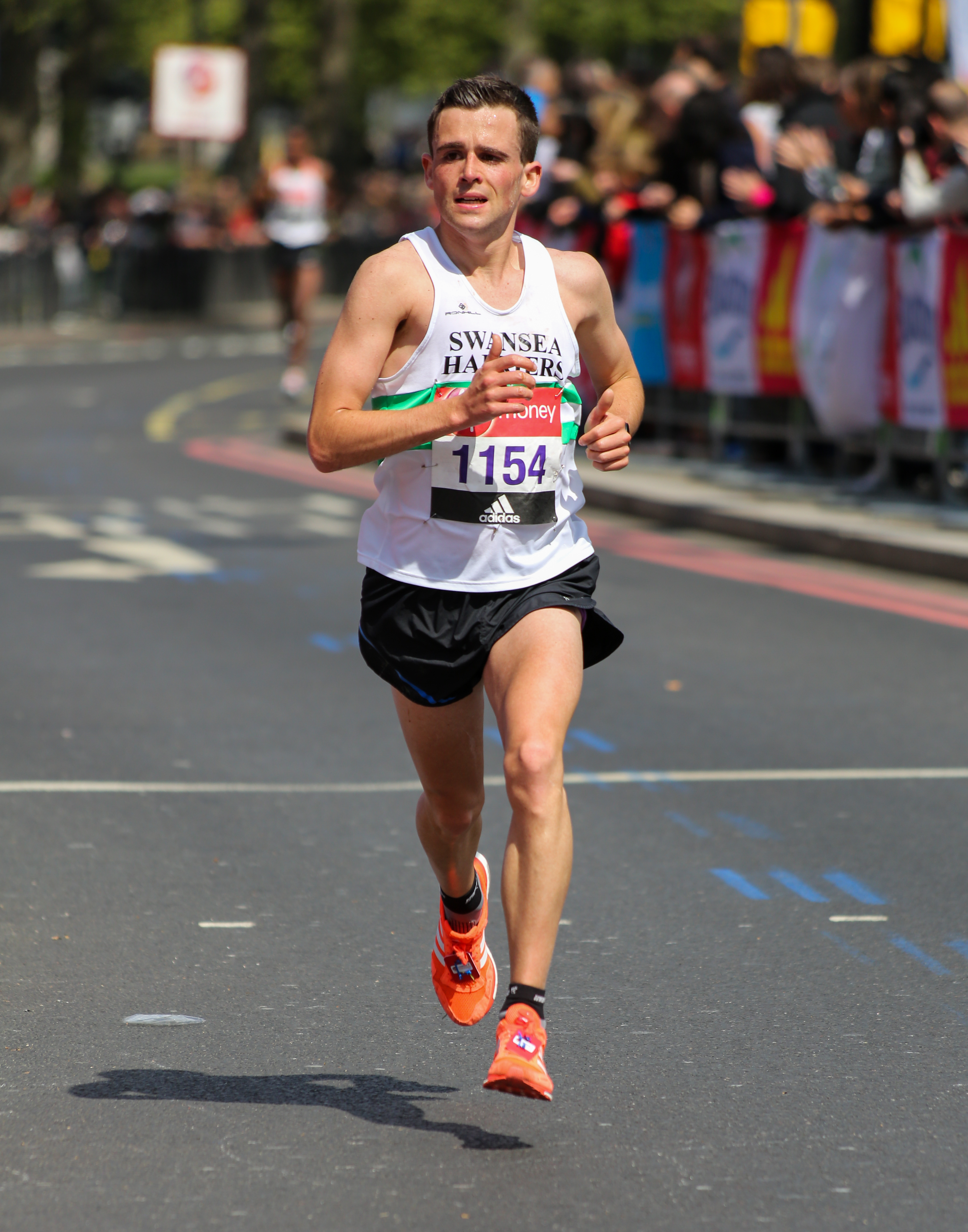 2017 London Marathon – Josh Griffiths (#1154). Fastest British men on his marathon debut with a time of 2:14:49, despite starting as a club and not elite runner, automatically qualifying him for the 2017 World Championships.